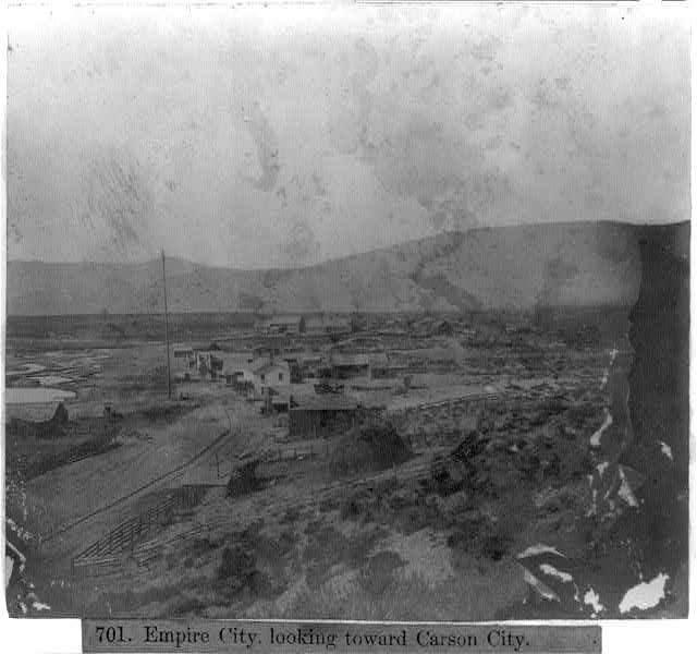 From the LoC site: Title: Empire City, looking toward Carson City Contributor Names: Lawrence & Houseworth, publisher Created / Published: [published 1866] Format Headings: Albumen prints--1860-1870, Stereographs--1860-1870. Notes: The Library holds only one photo from a pair published as a stereographic view. Gems of California scenery, no. 701. LOT subdivision subject: Nevada Cities and Towns. This record contains unverified old data from caption card. Medium: 1 photographic print : half stereograph, albumen. Call Number/Physical Location: LOT 3544-47, no. 701 [item] [P&P] Repository: Library of Congress Prints and Photographs Division Washington, D.C. 20540 USA Digital Id: cph 3a28400 //hdl.loc.gov/loc.pnp/cph.3a28400 Library of Congress Control Number: 2002723869 Reproduction Number: LC-USZ62-27610 (b&w film copy neg.) Rights Advisory: No known restrictions on publication. Online Format: image Description: 1 photographic print : half stereograph, albumen. LCCN Permalink